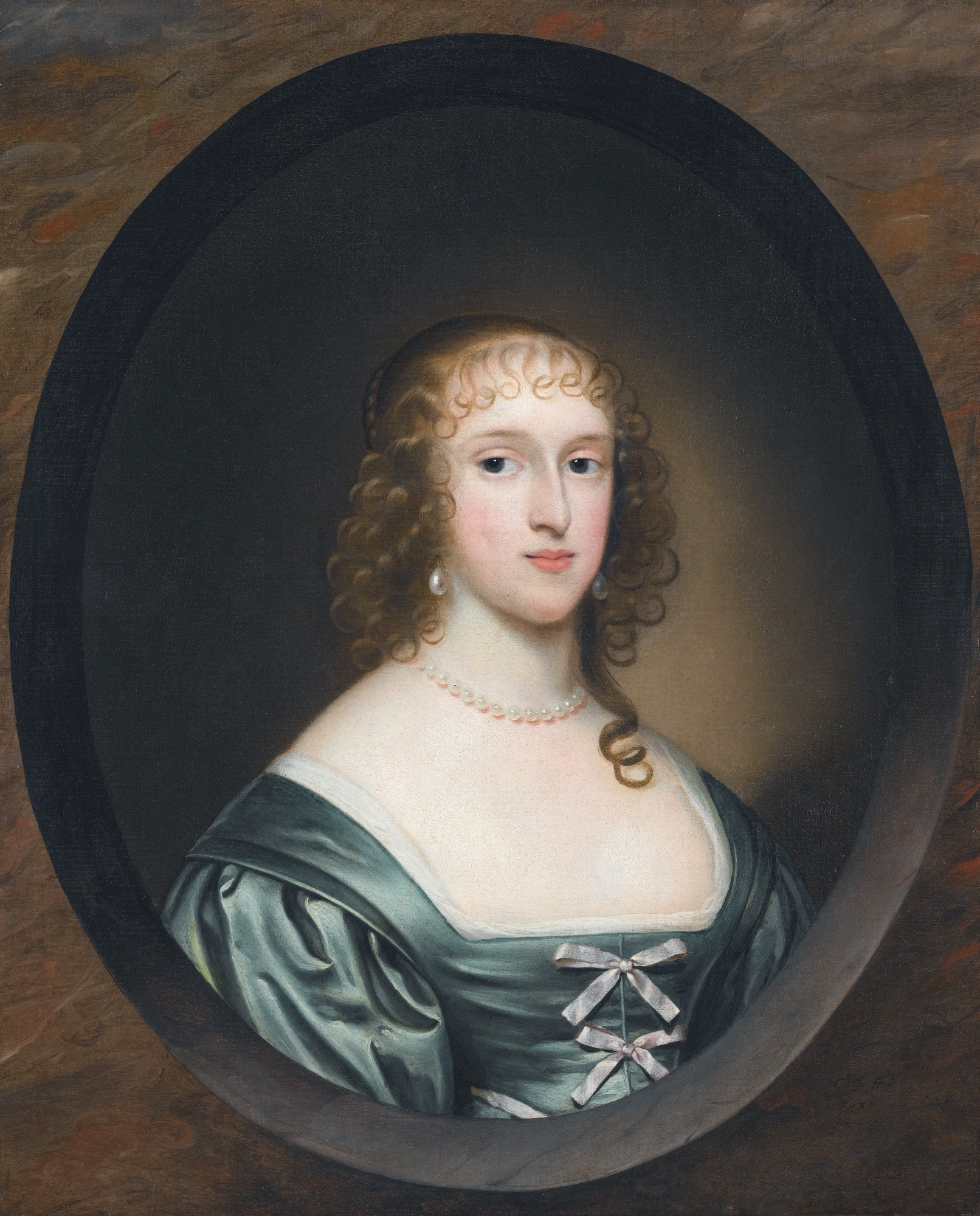 Lady Bowyer oil on canvas 78.8 by 63.4 cm signed b.r.: C.J. fecit./ 1636 inscribed: Bowy...I...dau: of Sir Anthony Aucher Kt/ Hester...Cornel..J...